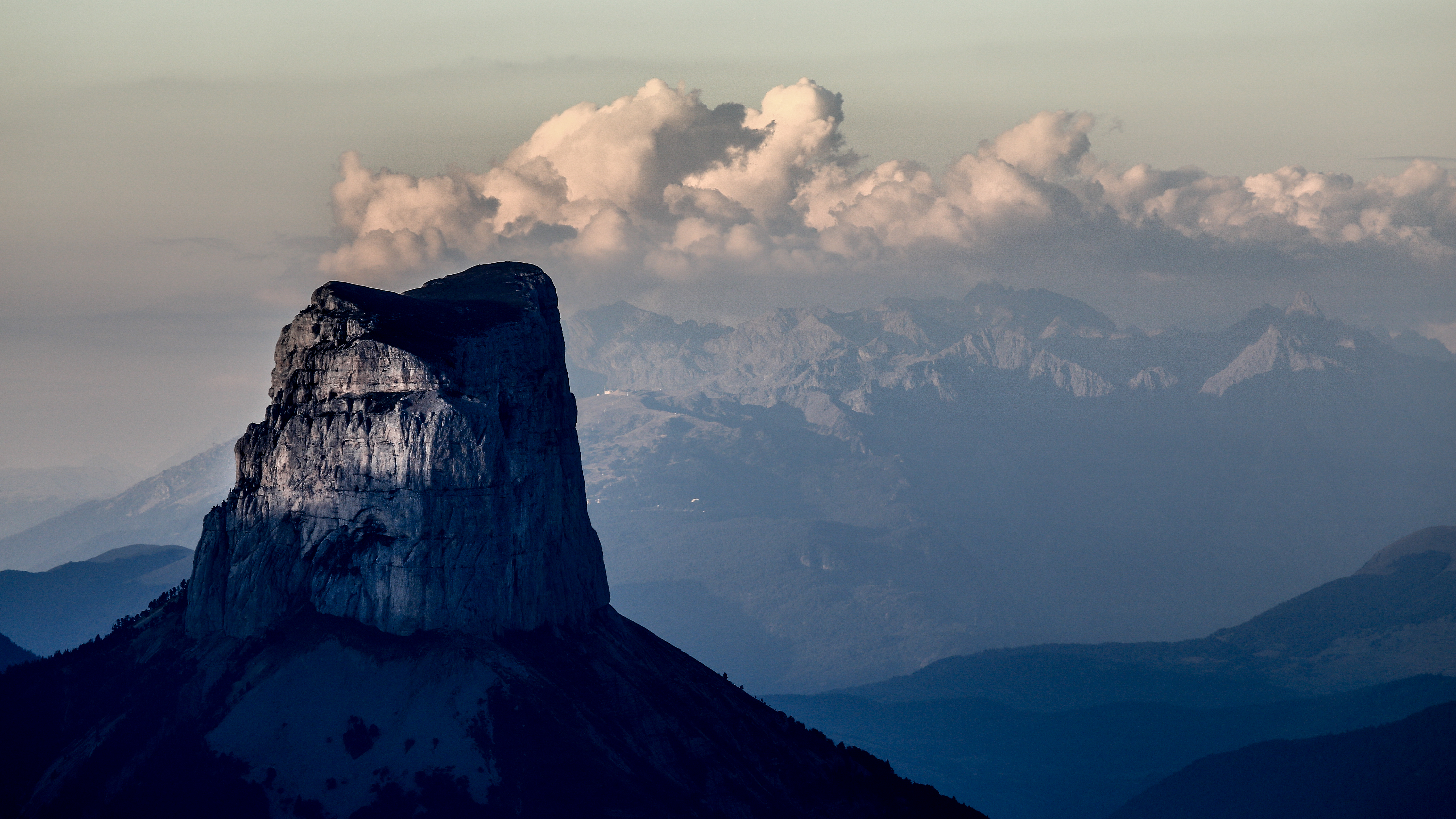 Parc naturel régional du Vercors